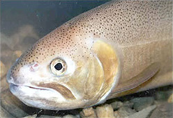 From [1] but identified as USFWS photo.